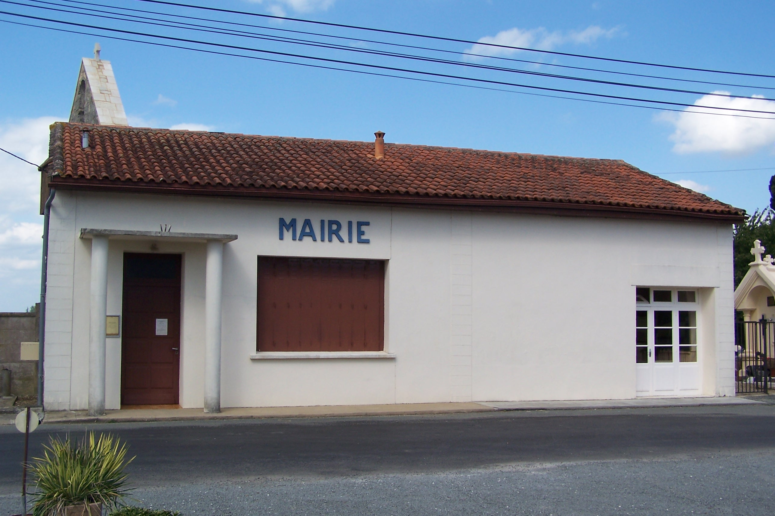 Town hall of Morizès (Gironde, France)